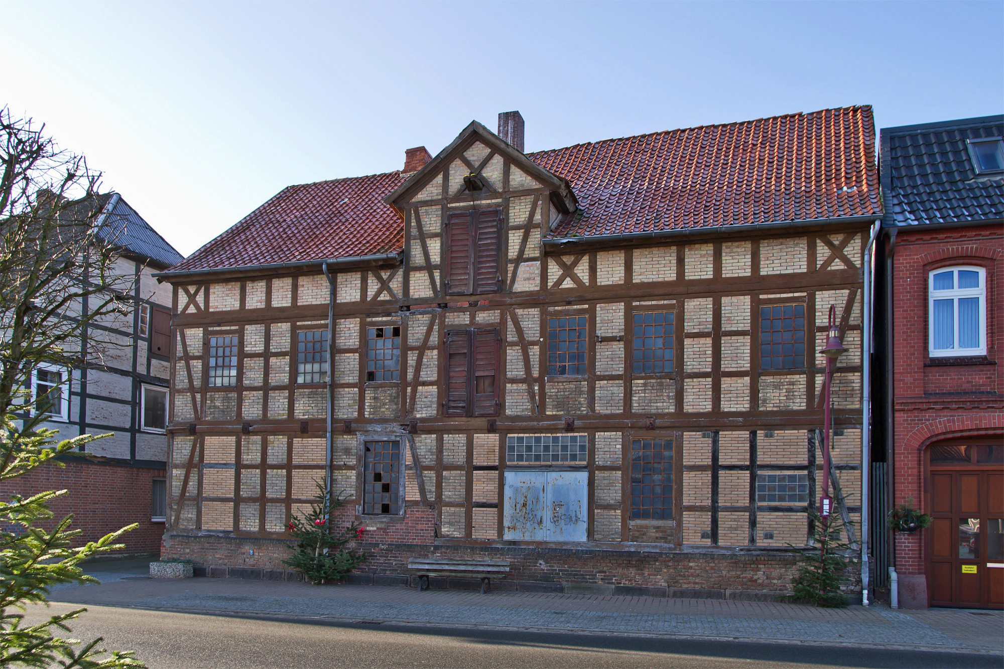 Old storage (?) building between Lange Strasse 9 and 10 in Clenze (district Lüchow-Dannenberg, northern Germany); part of the cultural heritage monument "Lange Strasse".